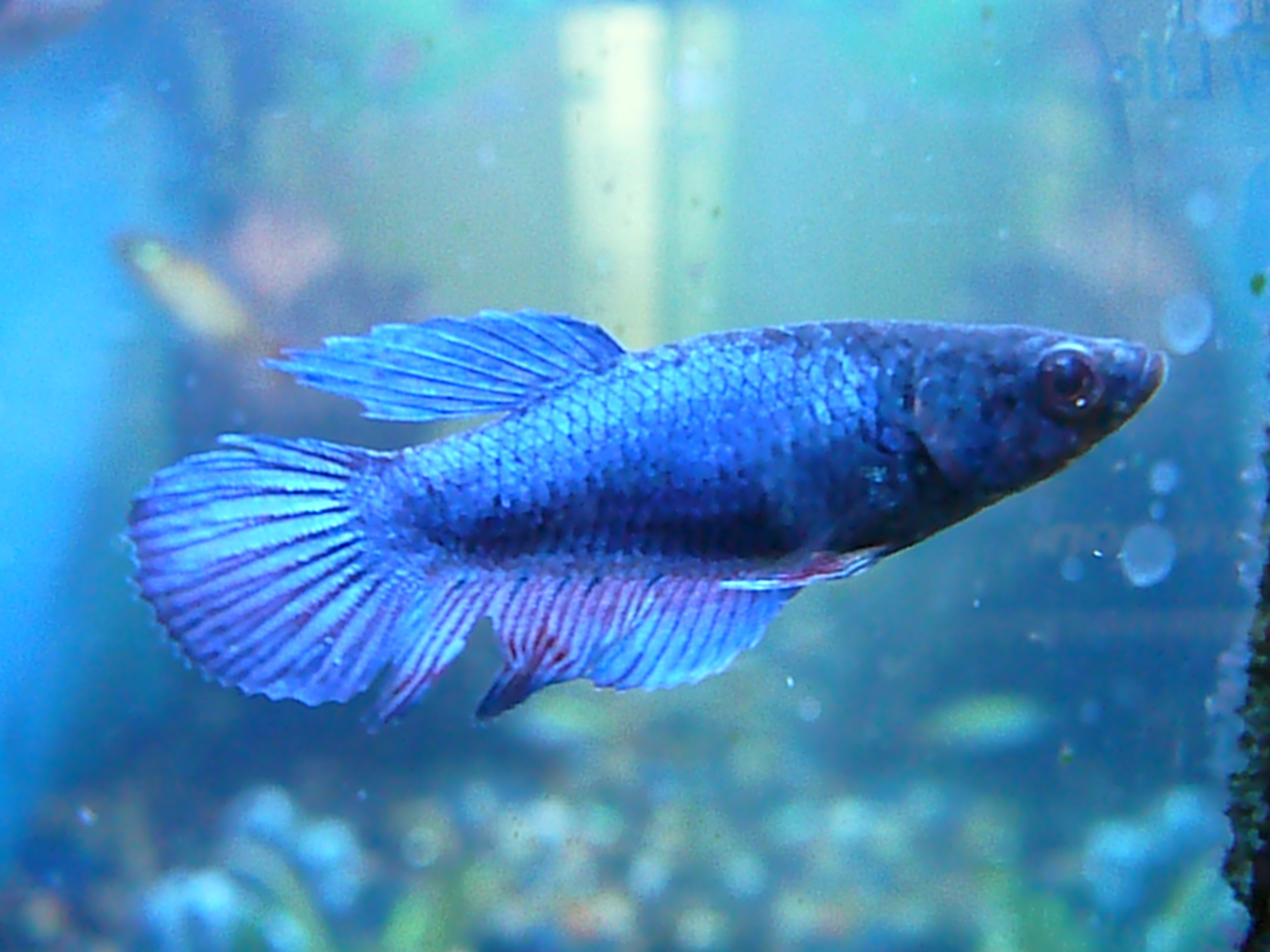 Close-up of a female betta splendens (also called "siamese fighting fish" or simply "betta") showing newly-bred colorful nature of female bettas.